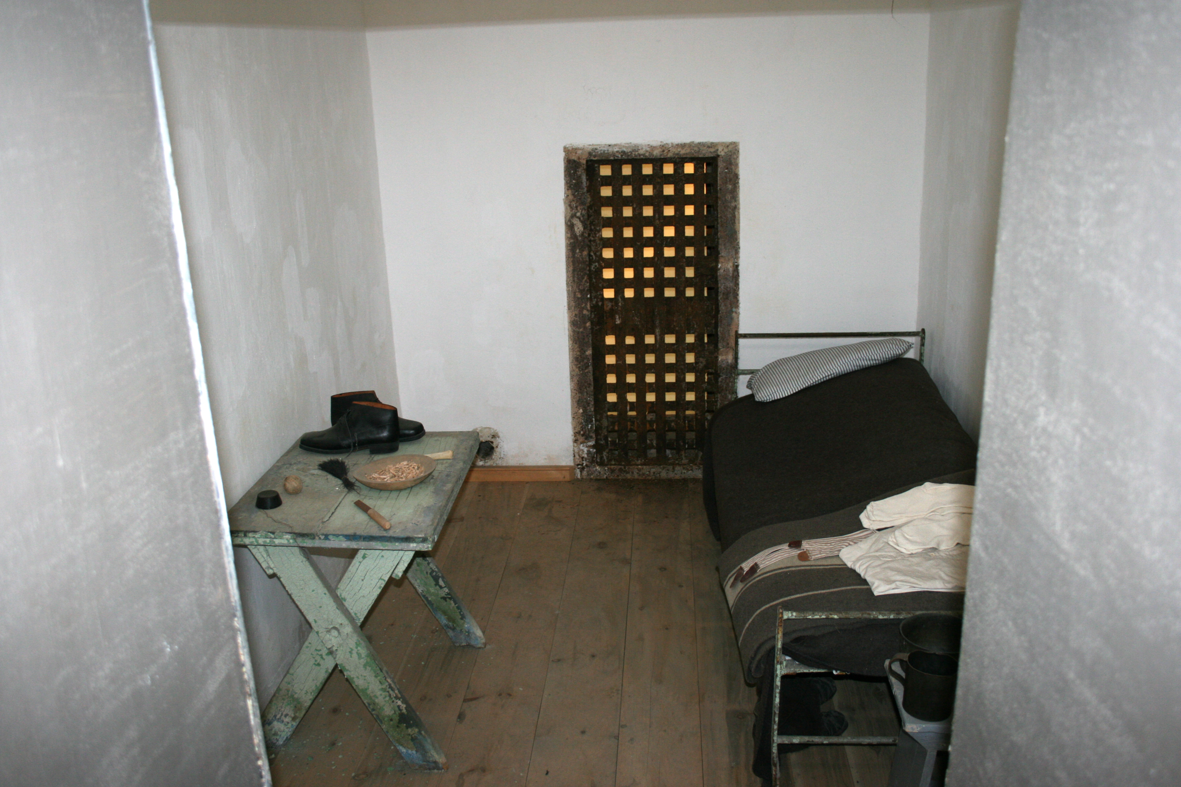 A mock-up of what a cell was like during Eastern State Penitentiary's days.